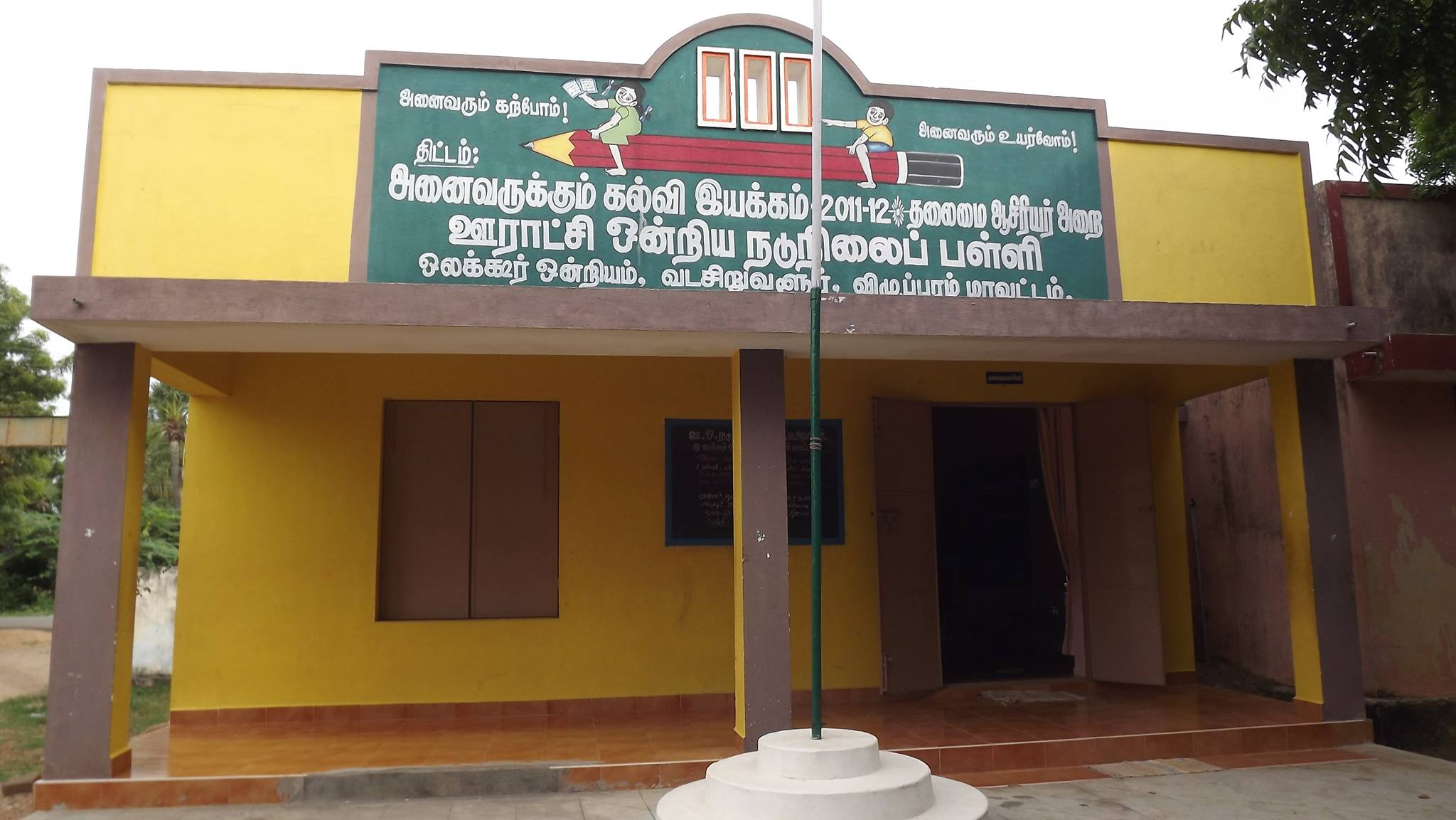 PUMS VADASIRUVALUR